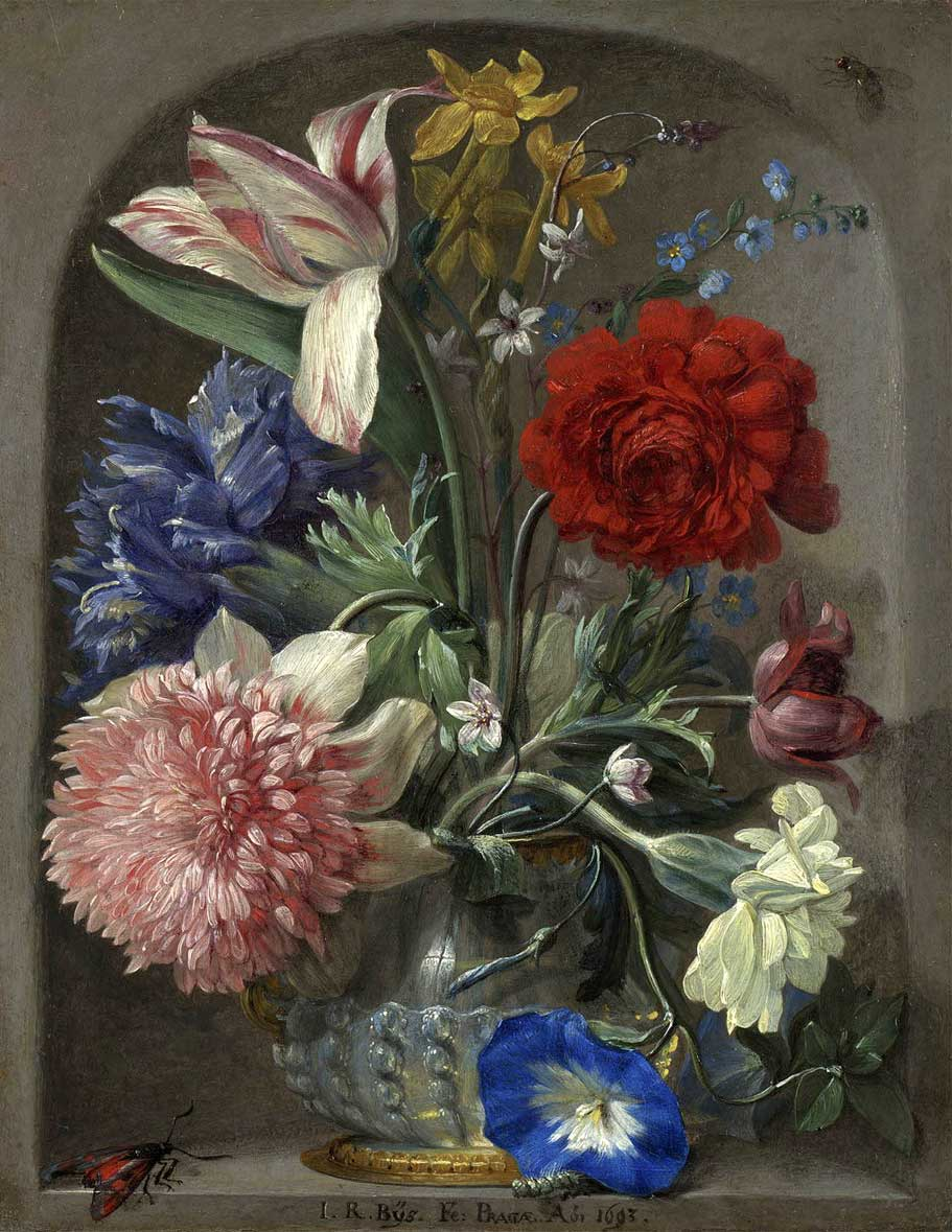 Flowers in a vase in a stone niche